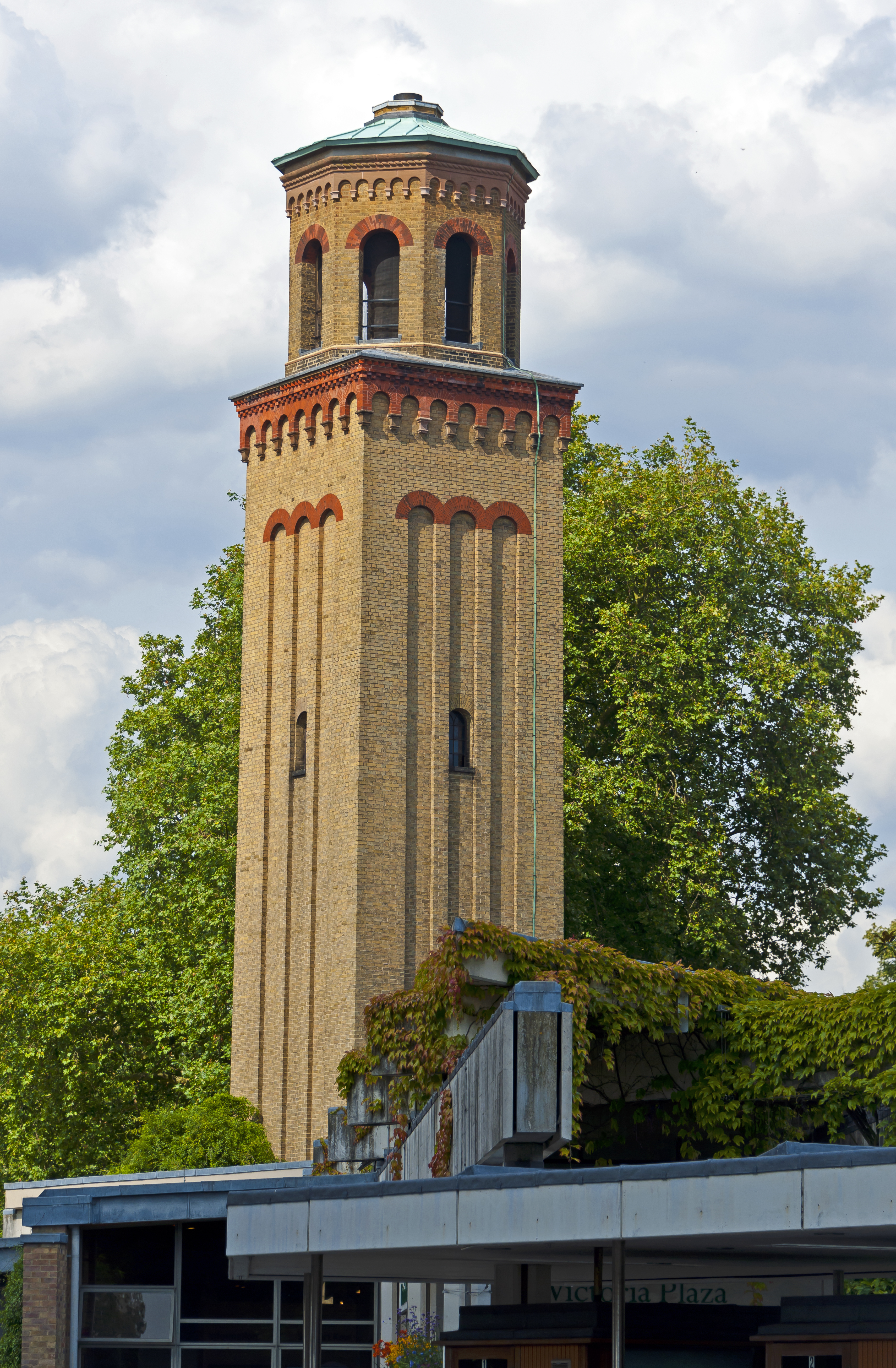 Campanile at Kew Gardens in afternoon light